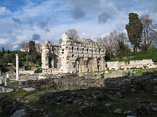 Public baths of the ancient Roman town of Cemenelum in Nice.